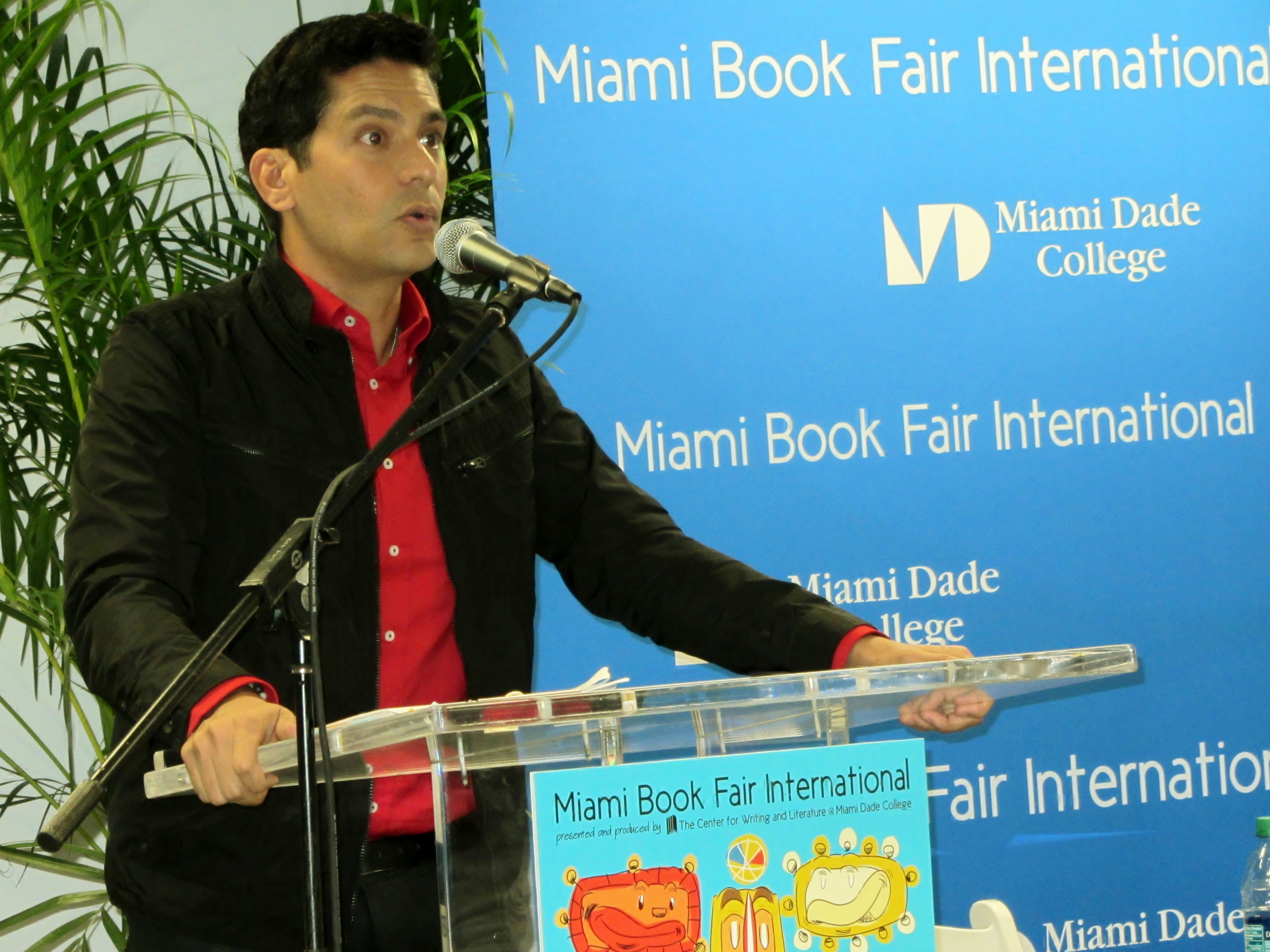 Cuban journalist Ismael Cala at the Miami Book Fair International 2014